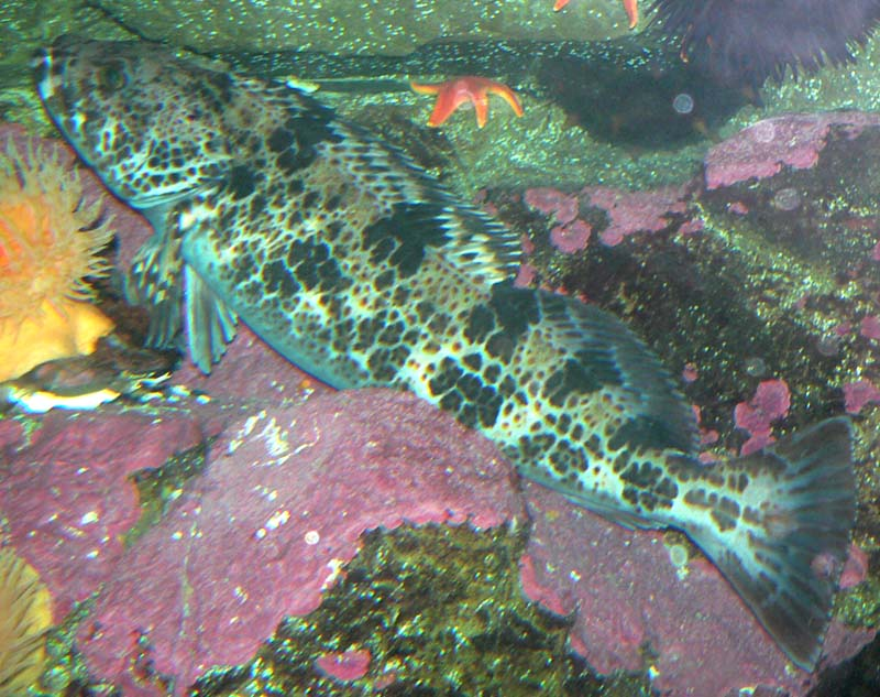 Photo of Ophiodon elongatus (lingcod) at the Vancouver Aquarium